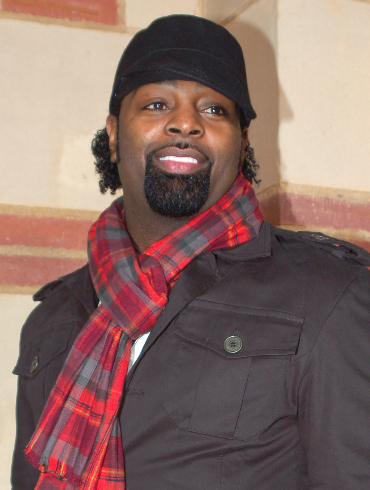 Dave Scott at a performance of The Hot Chocolate Nutcracker in December 2010.